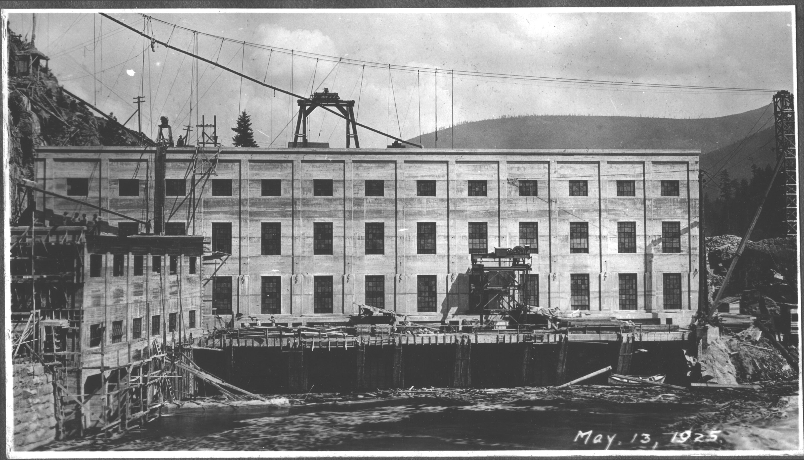 West Kootenay Power and Light Co. industrial projects in British Columbia in the 1920s